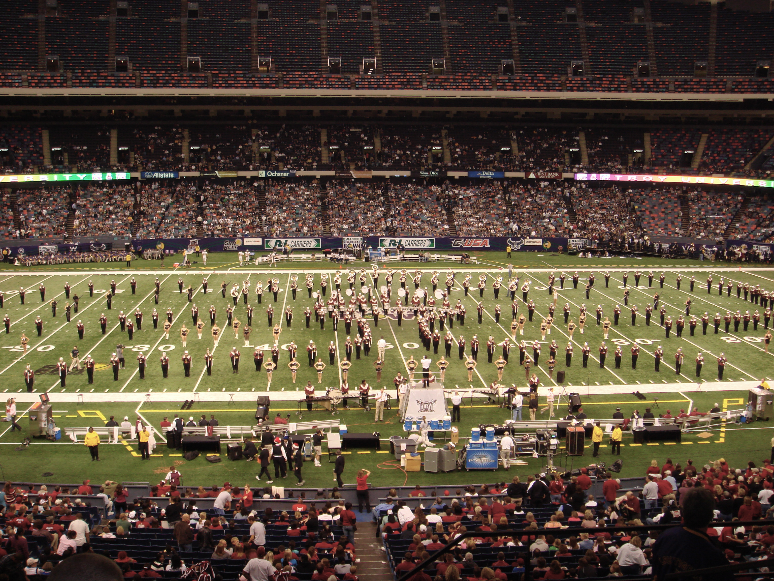 This is a picture of the "Sound of the South" marching band at the New Orleans Bowl in 2006.